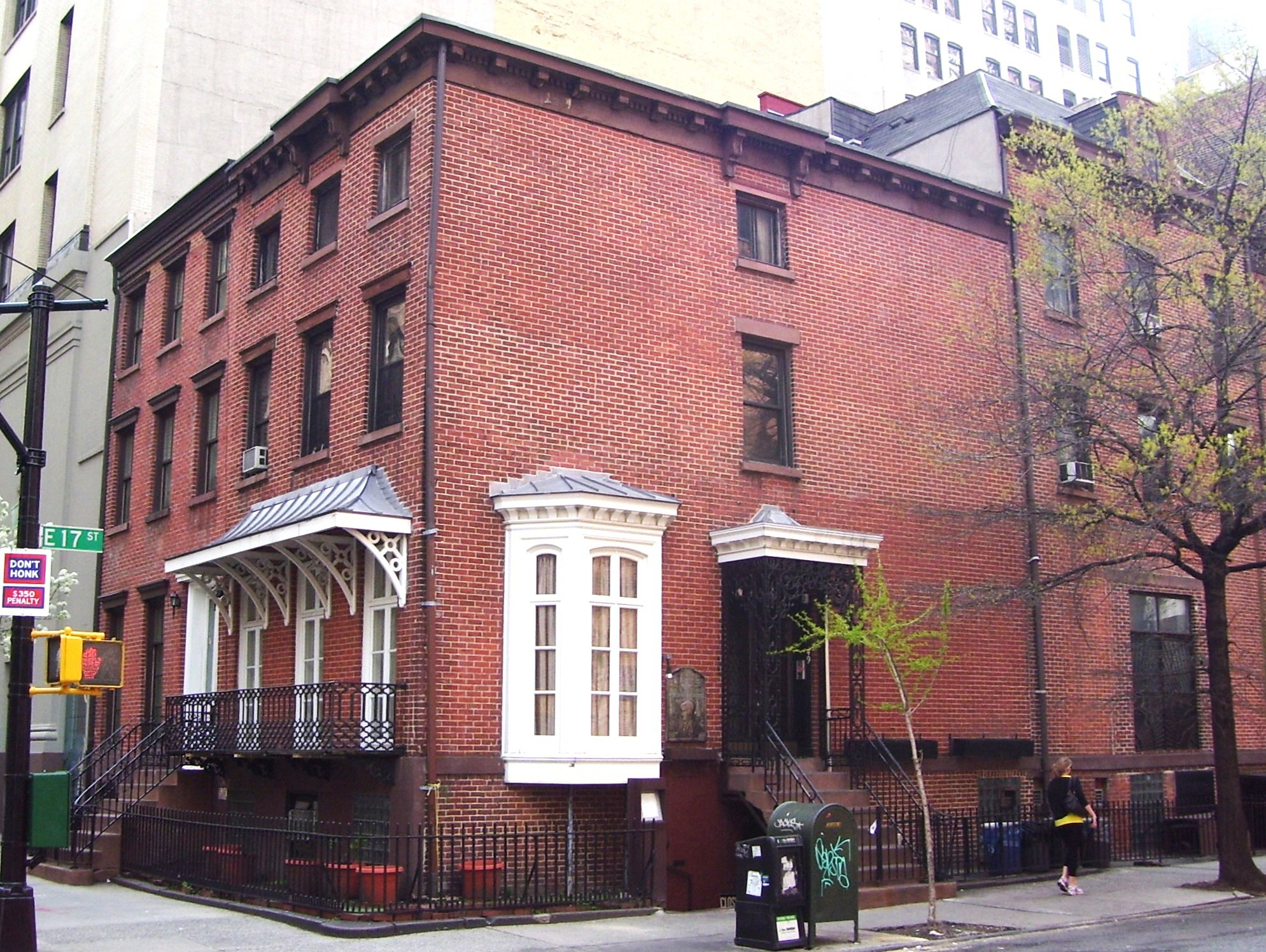 122 East 17th Street, also known as 49 Irving Place, in the Union Square neighborhood of Manhattan, New York City was built in 1843-44 as one of three Greek Revival row houses (along with 47 Irving Place and another no longer extant). It was extended along 17th Street c.1853-54, at which time Italianate features were added. Additional changes were made c.1868-70. Despite a plaque on the 17th Street facade, there is no historical evidence for the local legend that Washington Irving lived in this house, although his nephew, Edgar Irving, did live next door at 120 East 17th Street, and had a son named Washington Irving after the writer. Else de Wolfe and Elisabeth Marbury, called by the New York Times the "most fashionable Lesbian couple of Victorian New York" lived here from 1892-1911, and de Wolfe may have been instrumental in spreading the Irving rumor. The building, which was converted to apartments prior to 1938, is located within the East 17th Street/Irving Place Historic District. (Source: East 17th Street/Irving Place Historic Distric Designation Report)